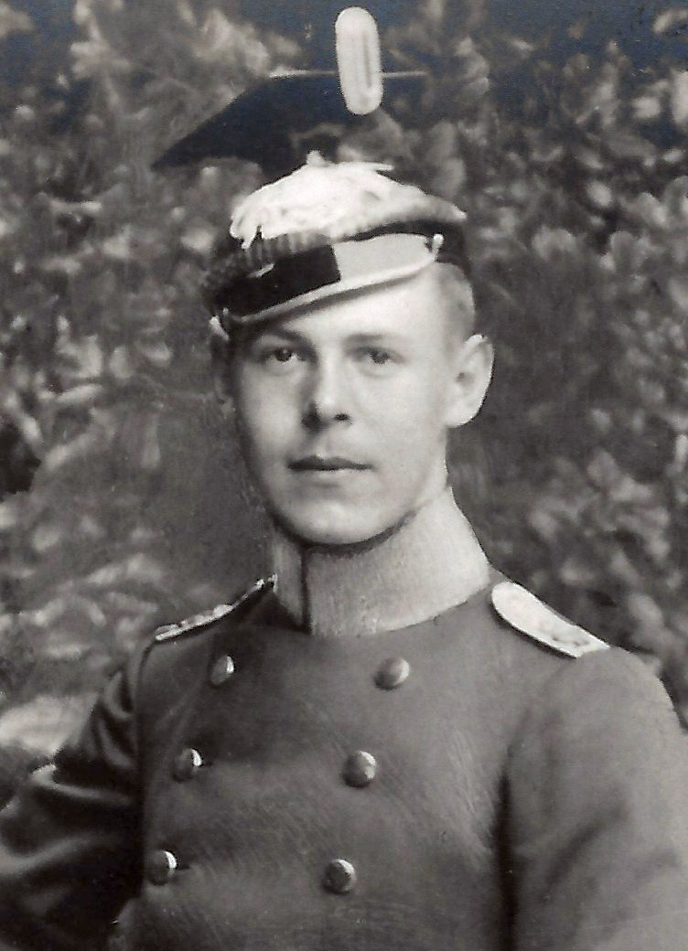 Prince Gottfried of Hohenlohe-Langenburg